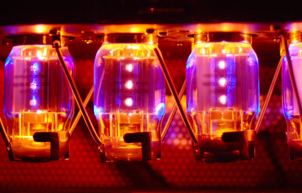 Four Electro Harmonix KT88 power tubes. The amplifier they are installed in is a Traynor YBA-200. The yellow glow is from the heater, the blue glow is from LED backlighting.